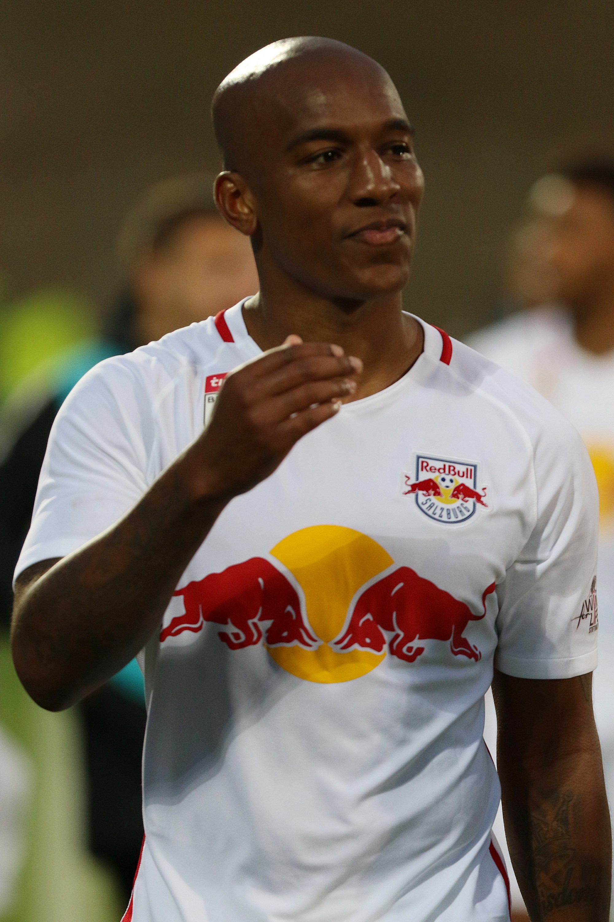 2016–17 Austrian Cup: FC Admira Wacker Mödling (red shirts) vs. FC Red Bull Salzburg (white shirts) at 26. April 2017 in the BSFZ-Arena in Maria Enzersdorf 0:5 (0:2) – The photo shows Andre Wisdom